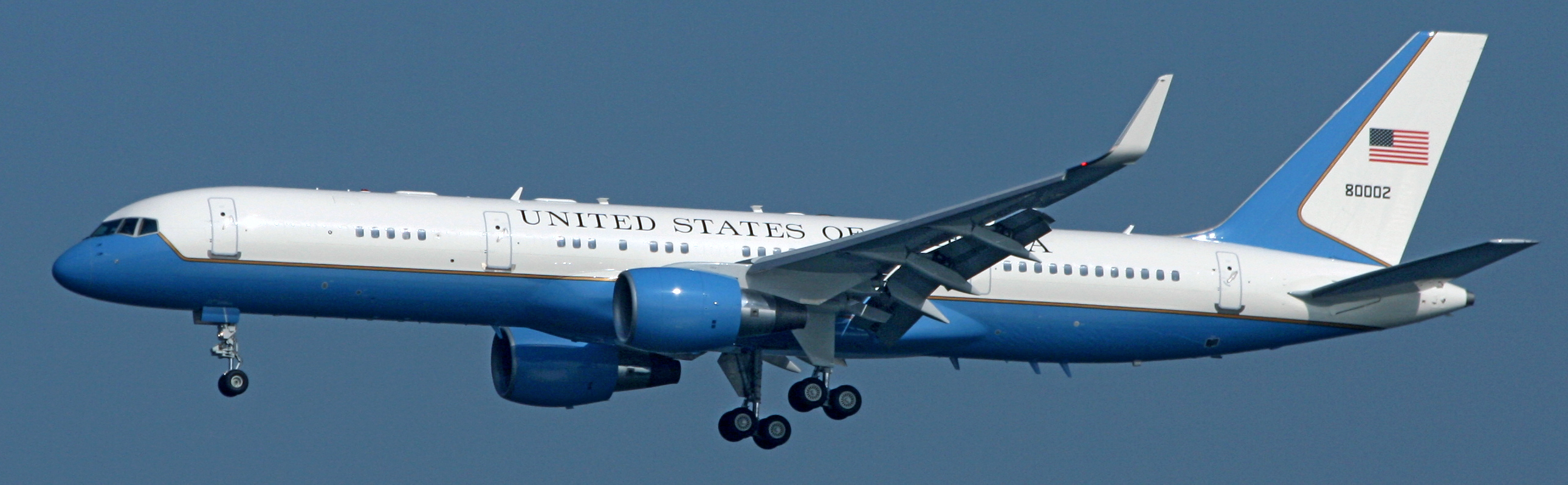 United States Air Force C-32A (military variant of Boeing 757-2G4). This aircraft is used for VIP transport and was transporting Vice President Joe Biden to New York City for an appearance on the ABC program "The View." The aircraft was on short final for LaGuardia Airport's Runway 22 when photographed from Hermon A. MacNeil Park in College Point, Queens, New York.